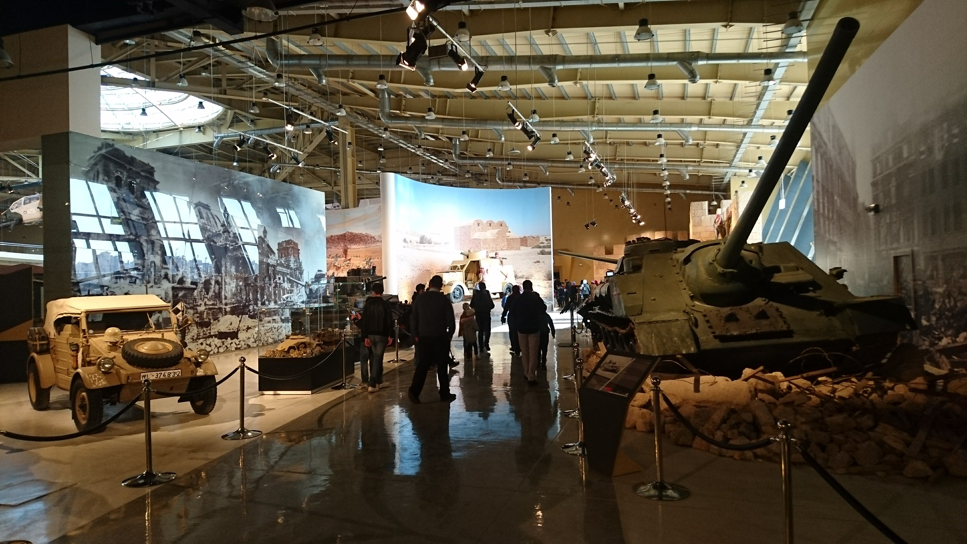 Royal Tank Museum, Amman - Jordan